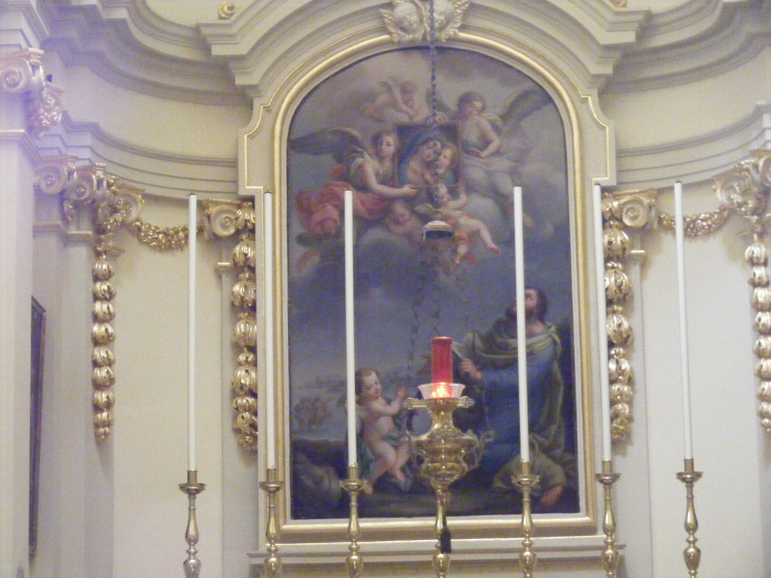 St. Bartholomew Church, Tarxien, Malta (main altar painting)